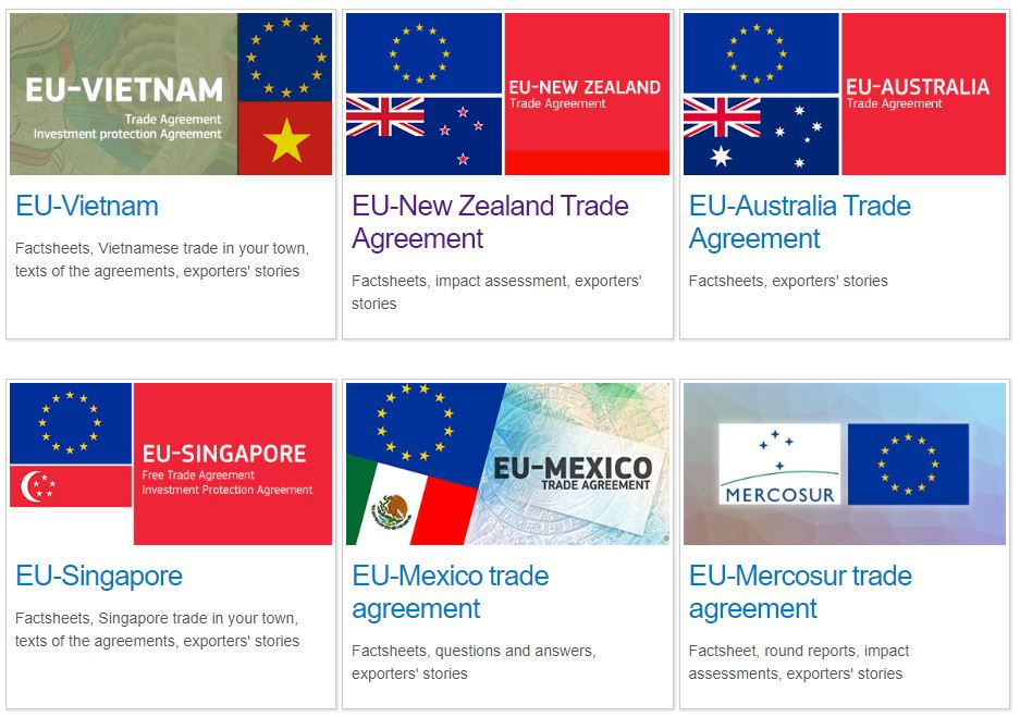 Capture of EU Free Trade Agreements